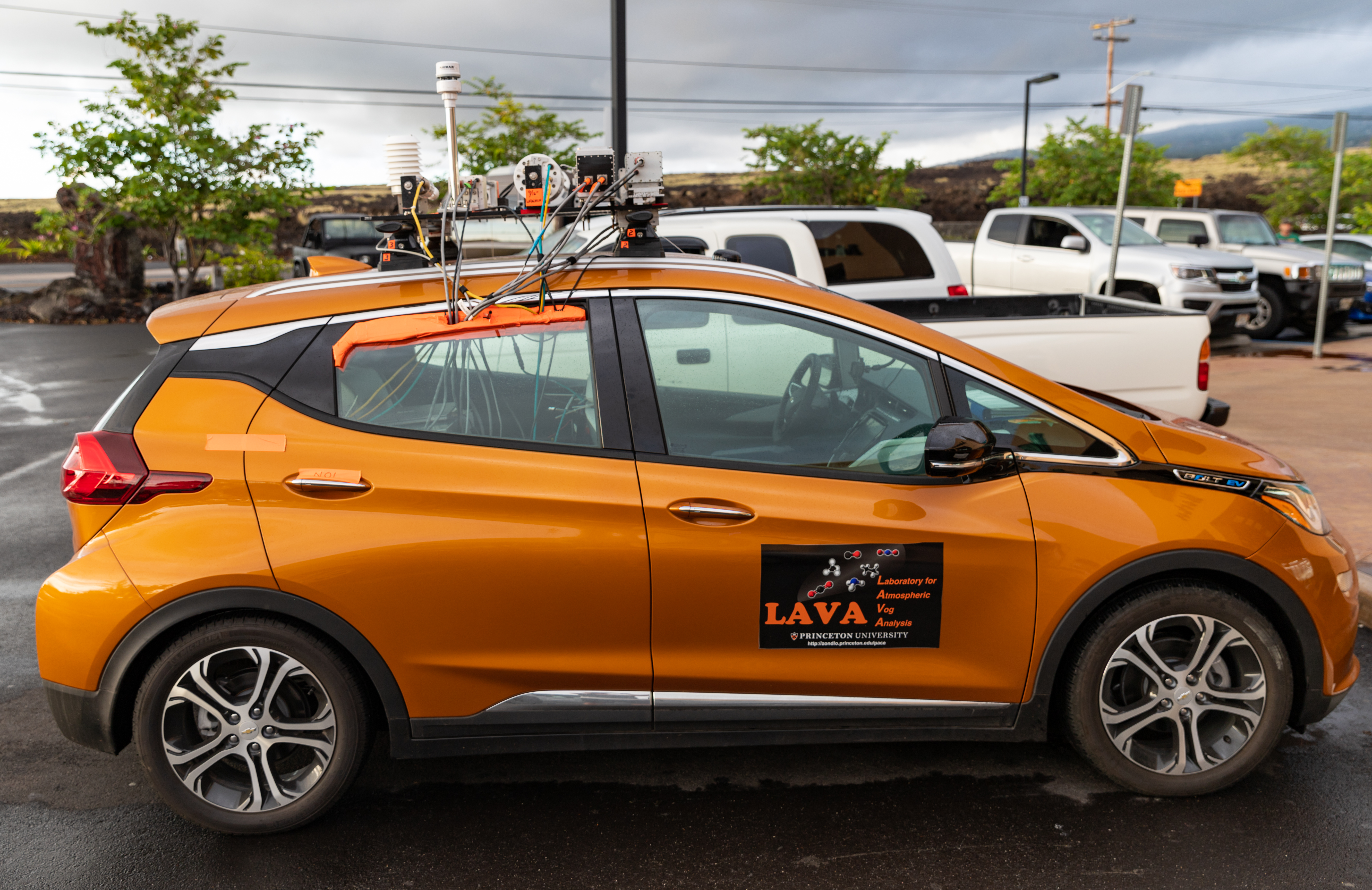 Volcano atmospheric vog measuring station Hawaii